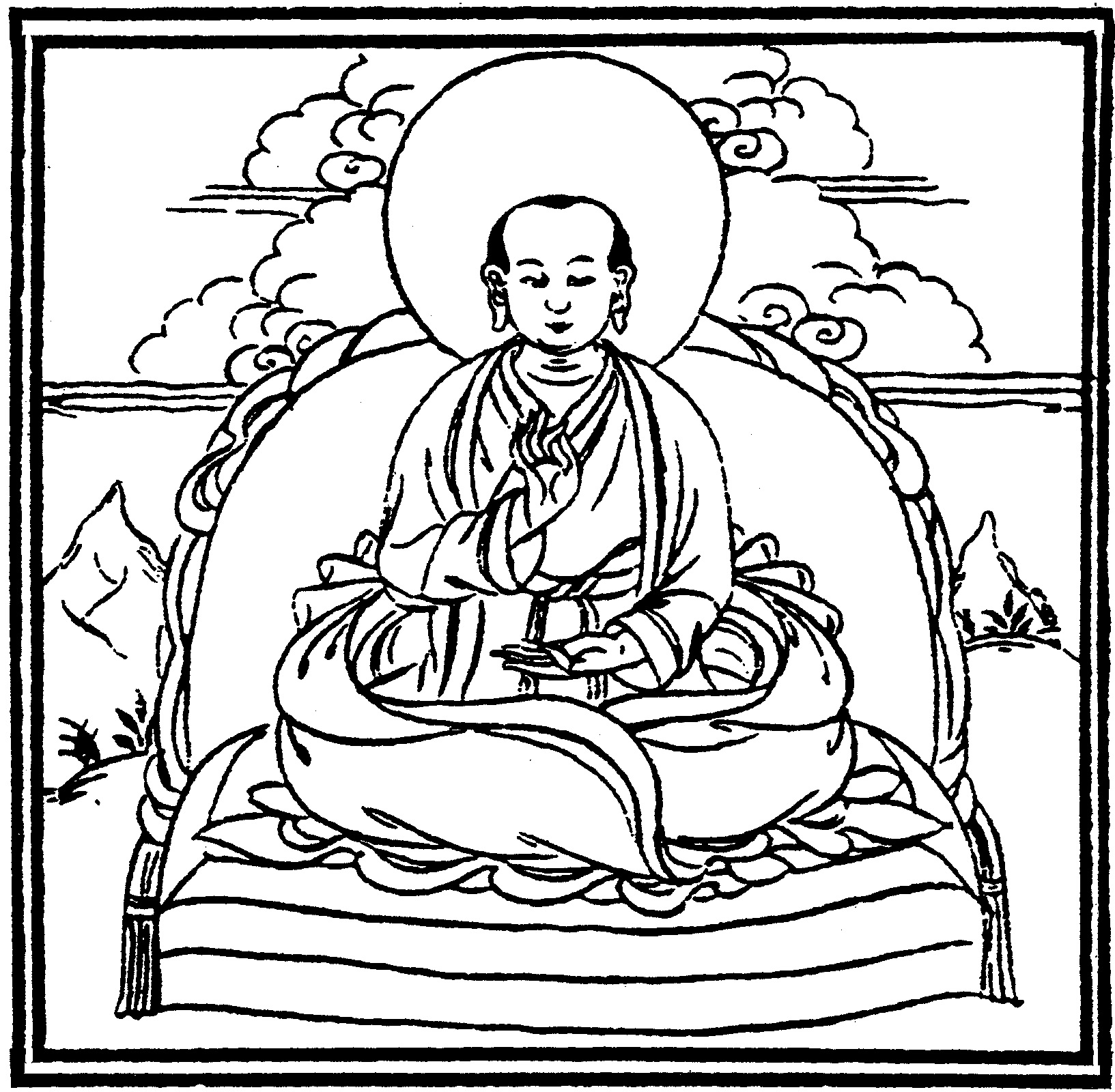 Zhangton Tashi Dorje (b.1097 - d.1167) Nyingma monk of Tibet